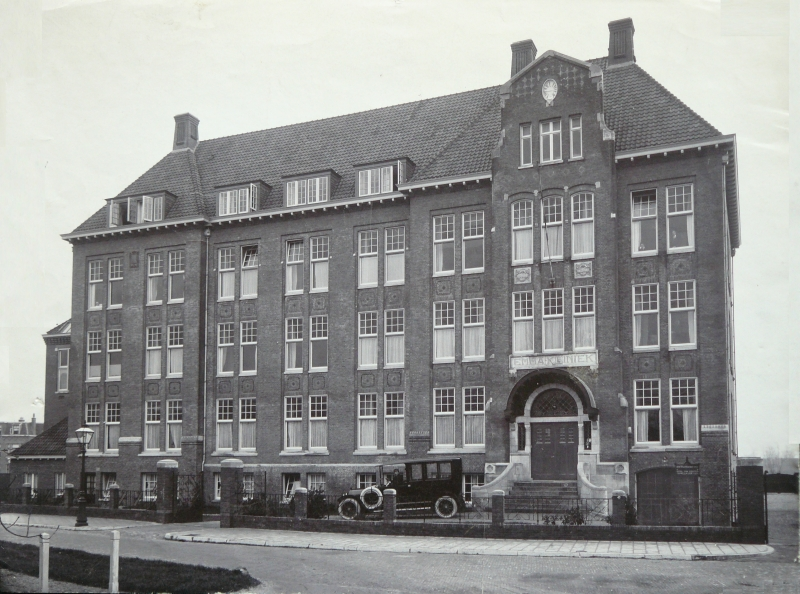 Hospital "Emmakliniek", Utrecht, NL (1916-1977)